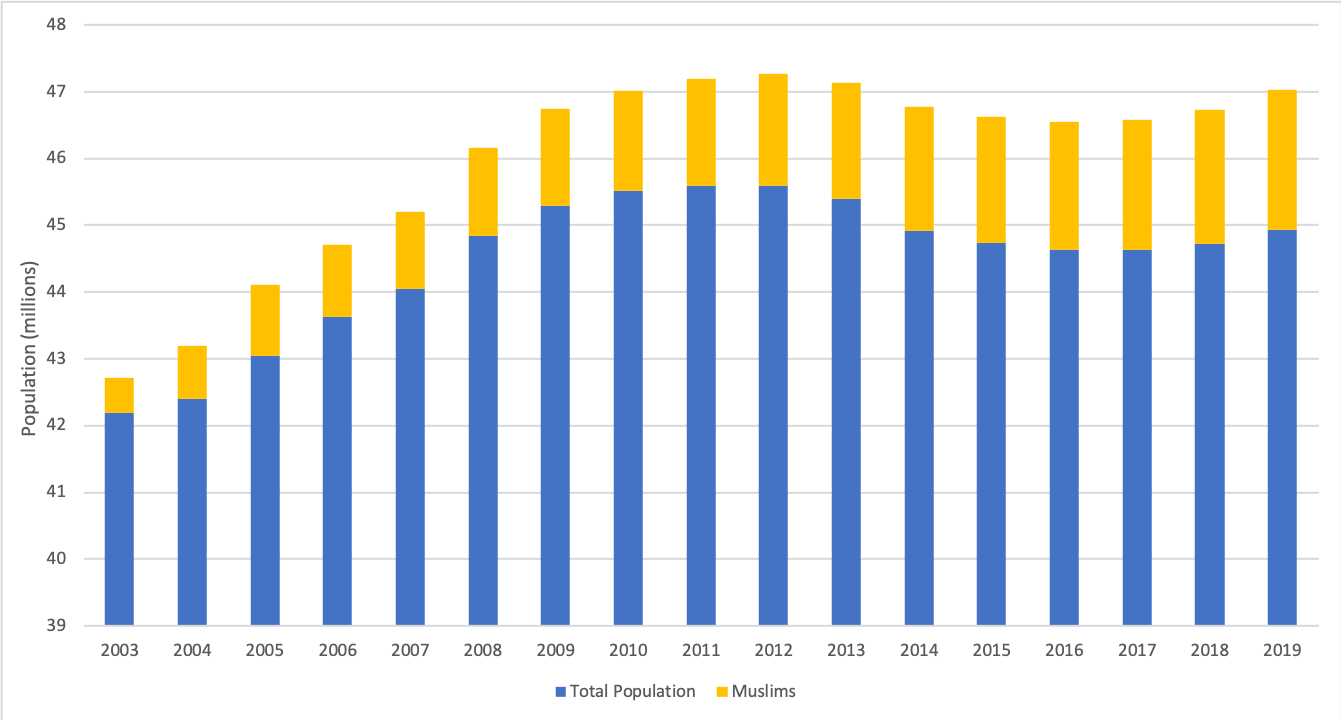 The Y axis shows the total population (both national and foreign) in millions. The blue bars show the non-Muslim population, while the yellow bars show the Muslim population in Spain. Note that the data on Muslim habitants in Spain is approximated, since the Spanish constitution do not allow to gather information on religious beliefs.